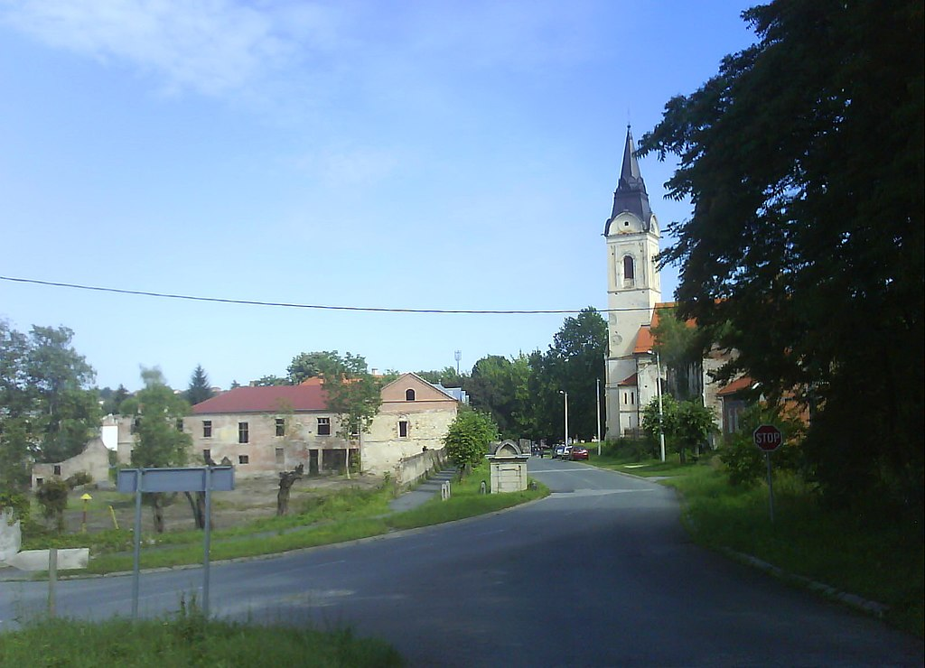 Vladičanski dvor u Pakracu,Saborna crkva, pakračka česma,Srpska pravoslavna crkva,Hrvatska